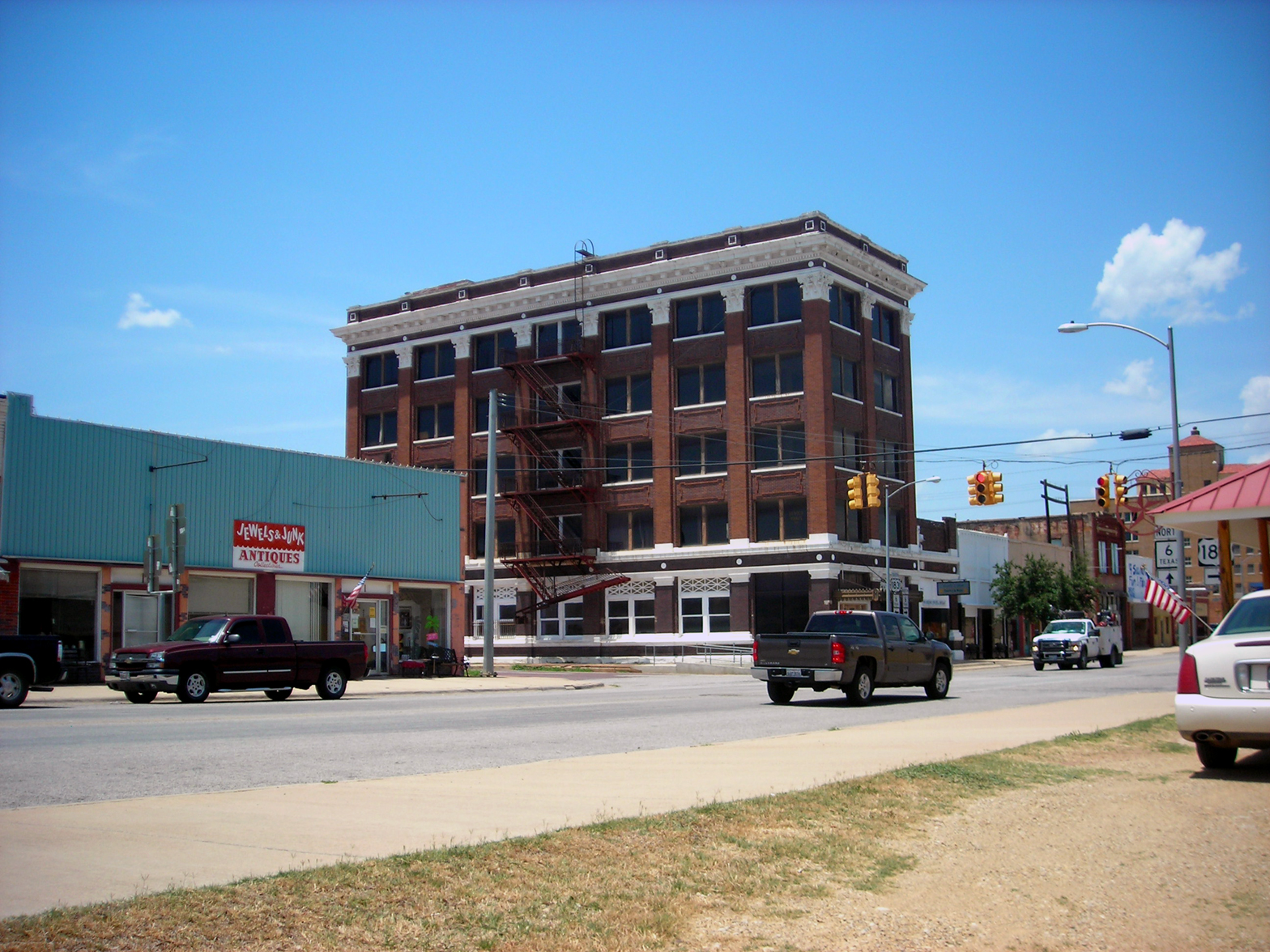 Downtown Cisco, Texas.